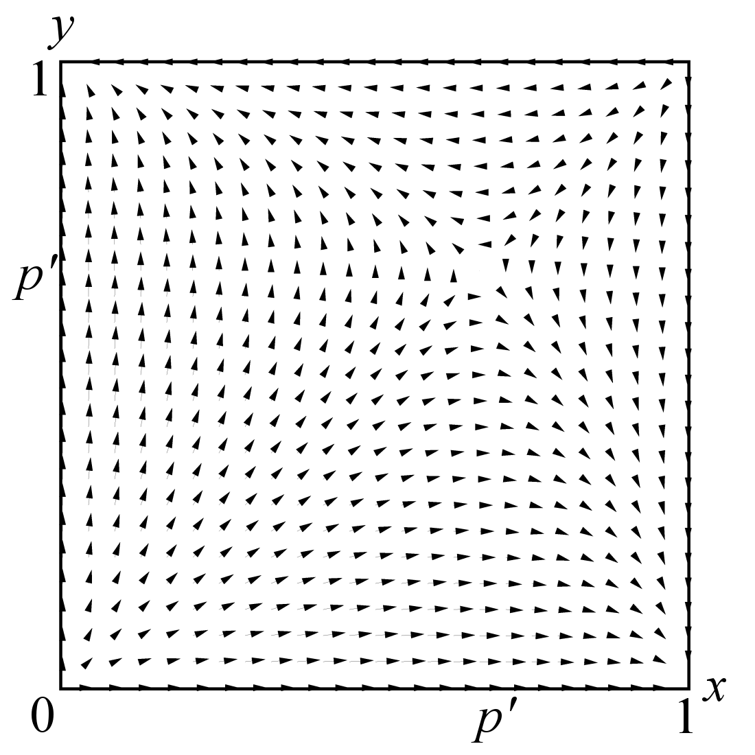 A vector field plot of the two population replicator dynamics for the game of chicken.